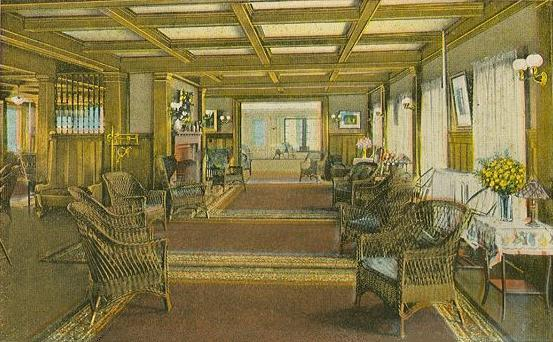 Section of lobby, The Mountain View House, Whitefield, NH; from a c. 1915 postcard.